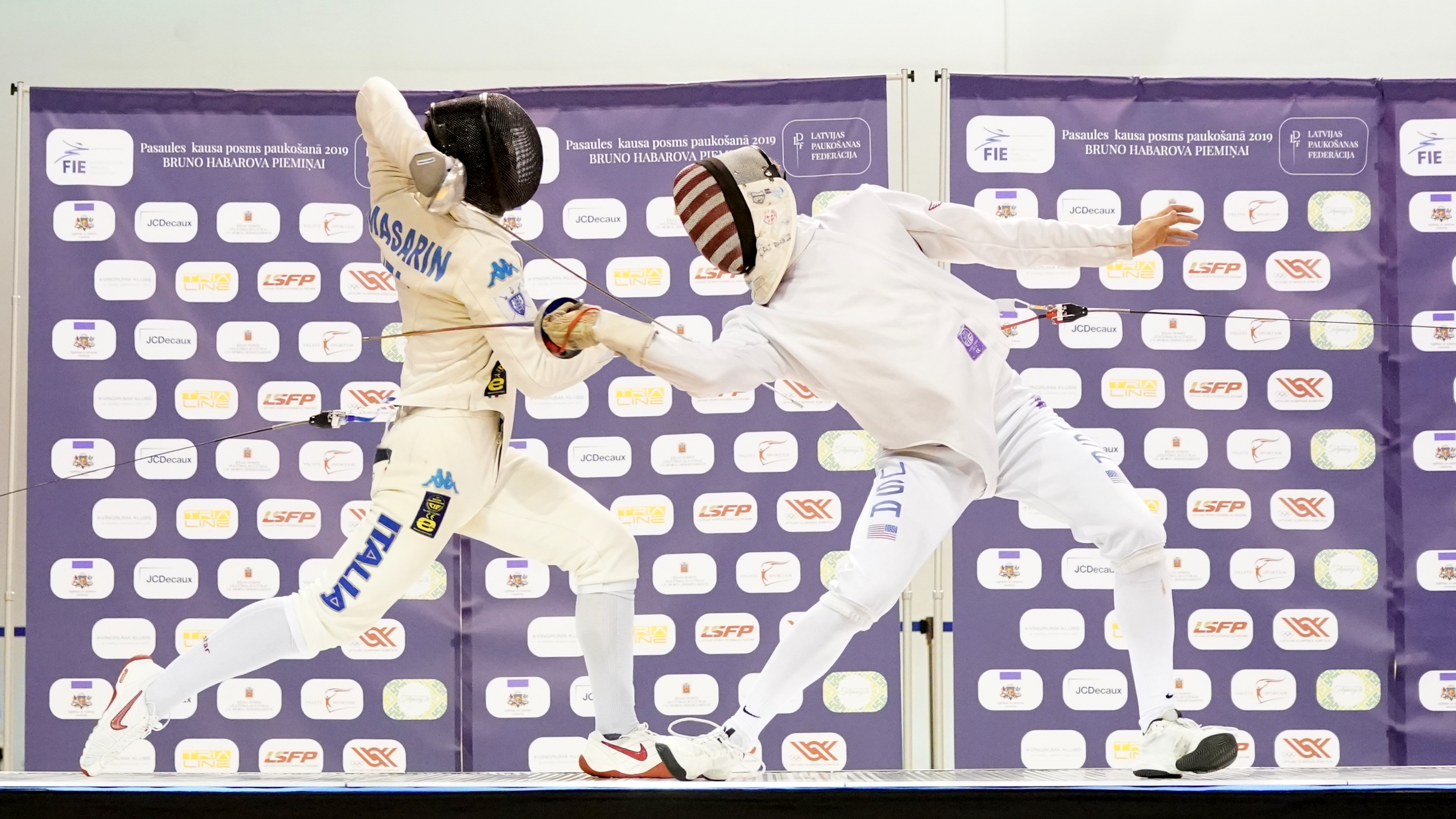 Fencing FIE Junior World Cup Riga 2019 Deitsch: Fechten FIE Junior-Weltmeisterschaft